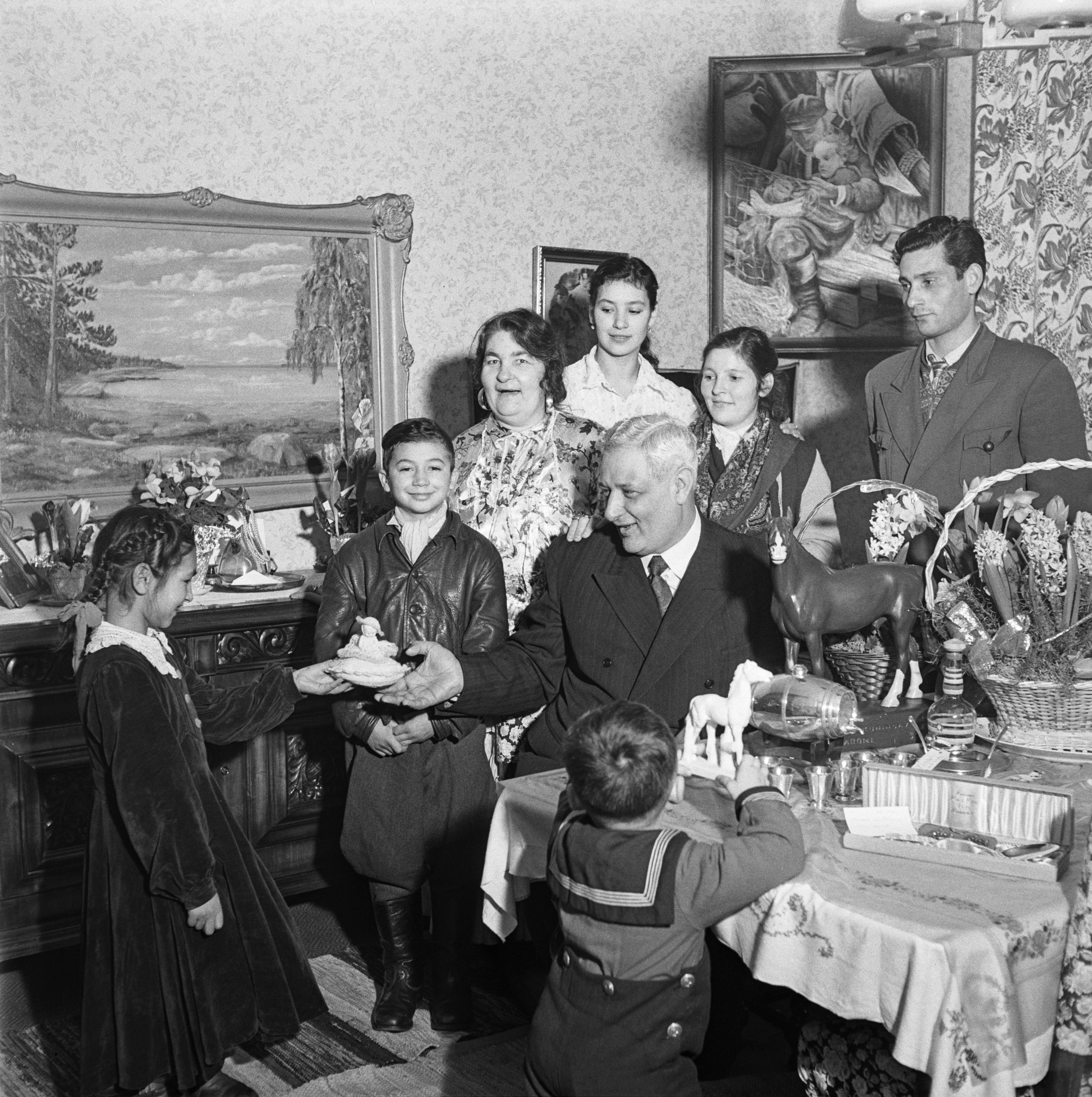 Photograph of the Finnish businessman Kalle Hagert (1911–1970) at his home with family.